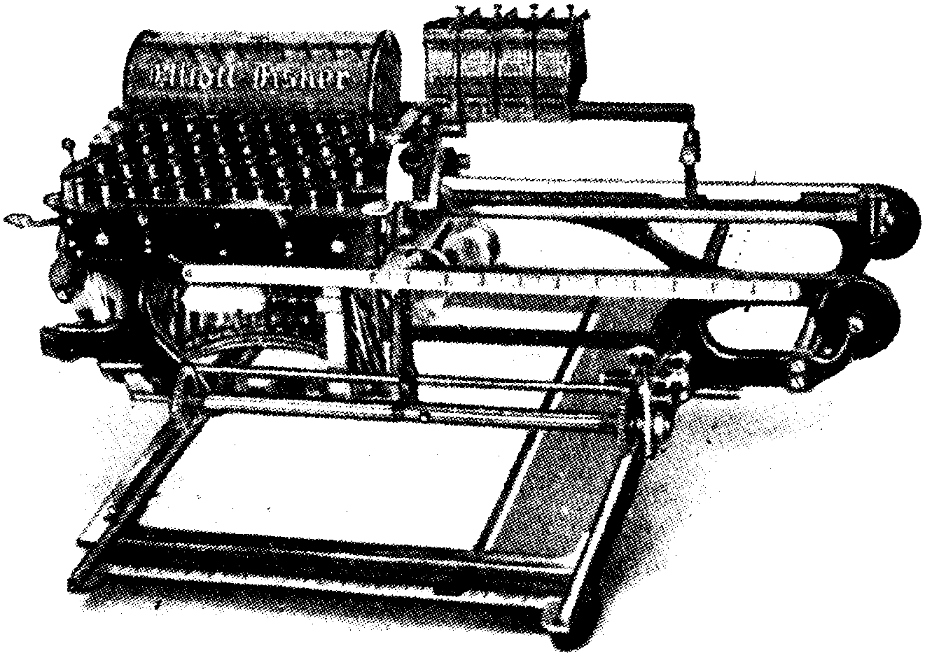 Elliot-Fisher book typewriter, made by the Elliott-Fisher Co. around 1903. Invented by the Elliot-Hatch Co. around 1897, book typewriters typed on bound books that lay flat when opened, with a moving carriage suspended over the surface. They were used to enter information in bookkeeping ledgers, property deed books, and other government and business record books, and to type letters while simultaneously printing carbon copies in a copy book. For more information see Antique special purpose office typewriters, Early Office Museum.